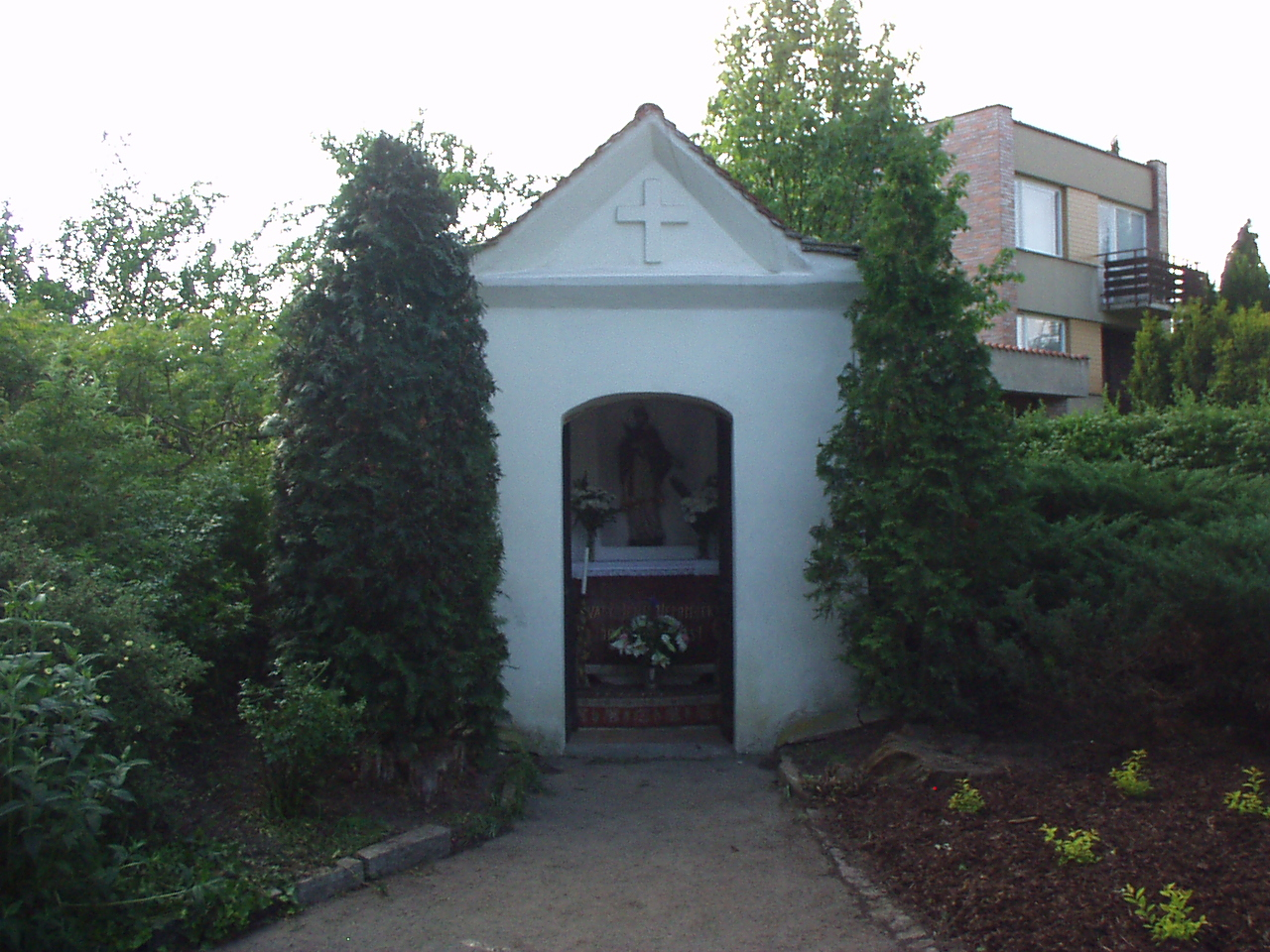 the chapel of John of Nepomuk, Prague-Dejvice